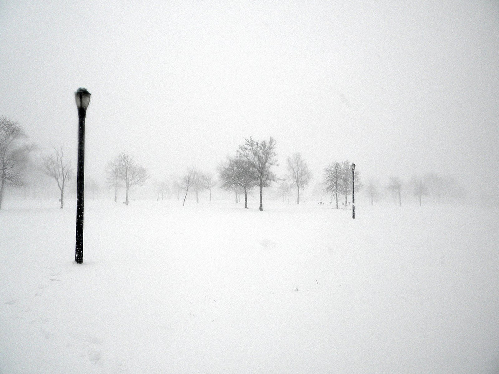 Whiteout conditions in Flushing Meadows-Corona Park in Flushing.